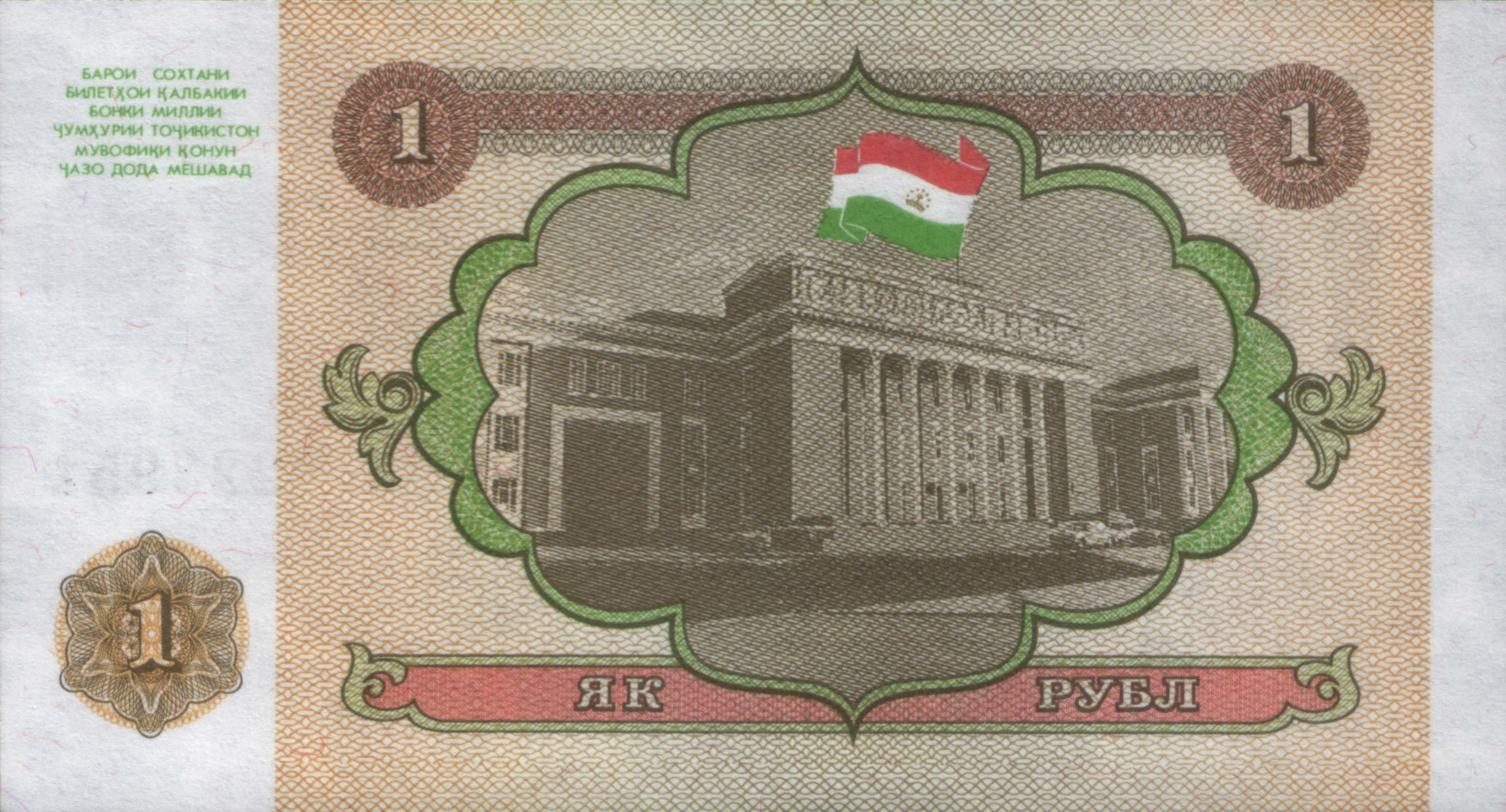 1 rouble of Tajikistan (1994)